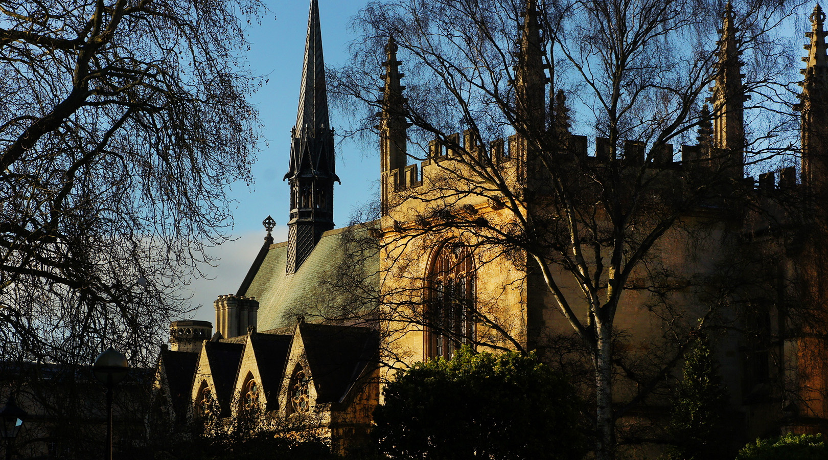 Oxford University. Oxford, England.